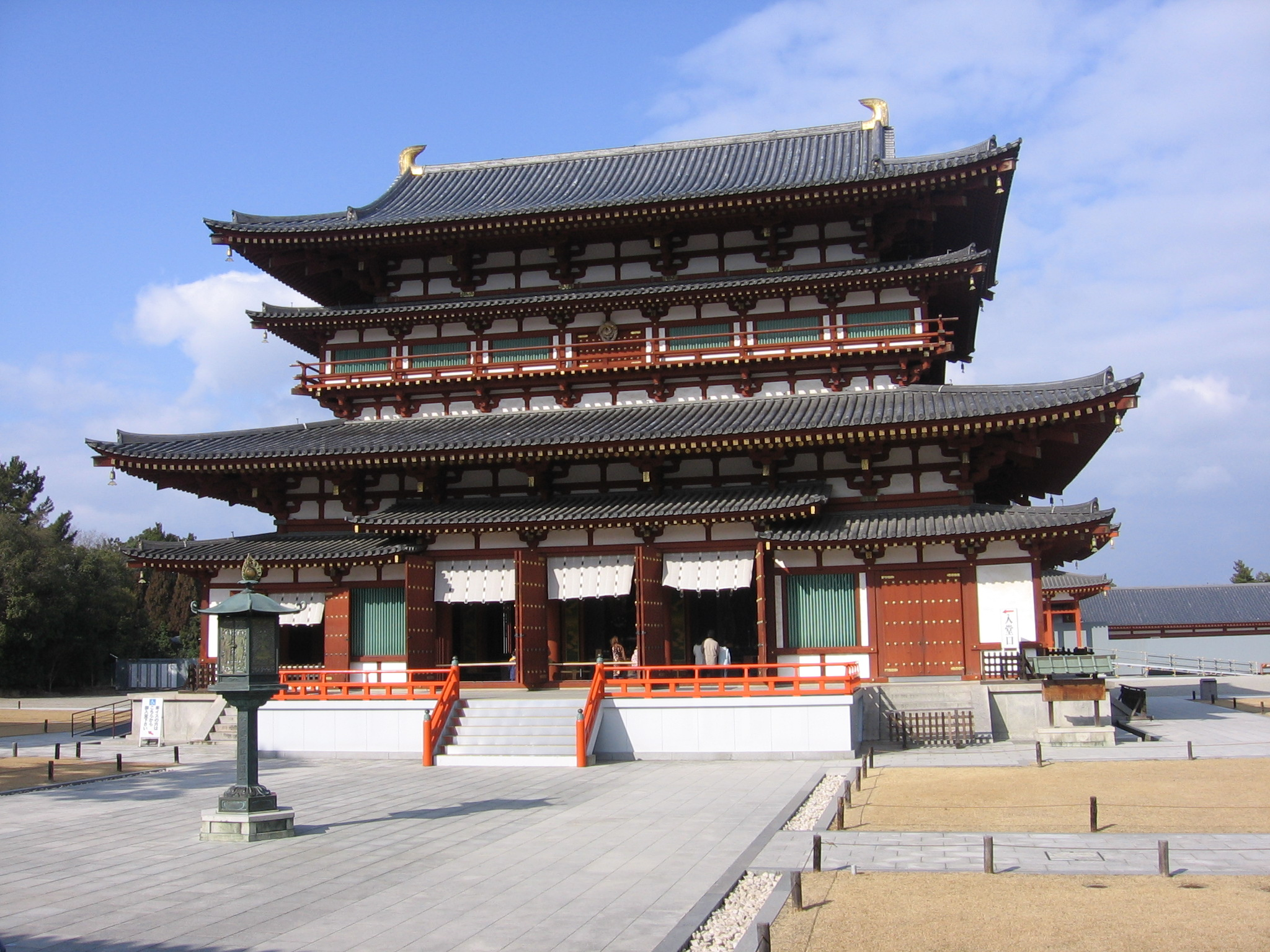 Yakushi-ji (薬師寺) (or Yakushiji temple) is an ancient Buddhist temple of the Hosso sect in the city of Nara, Nara Prefecture, Japan.